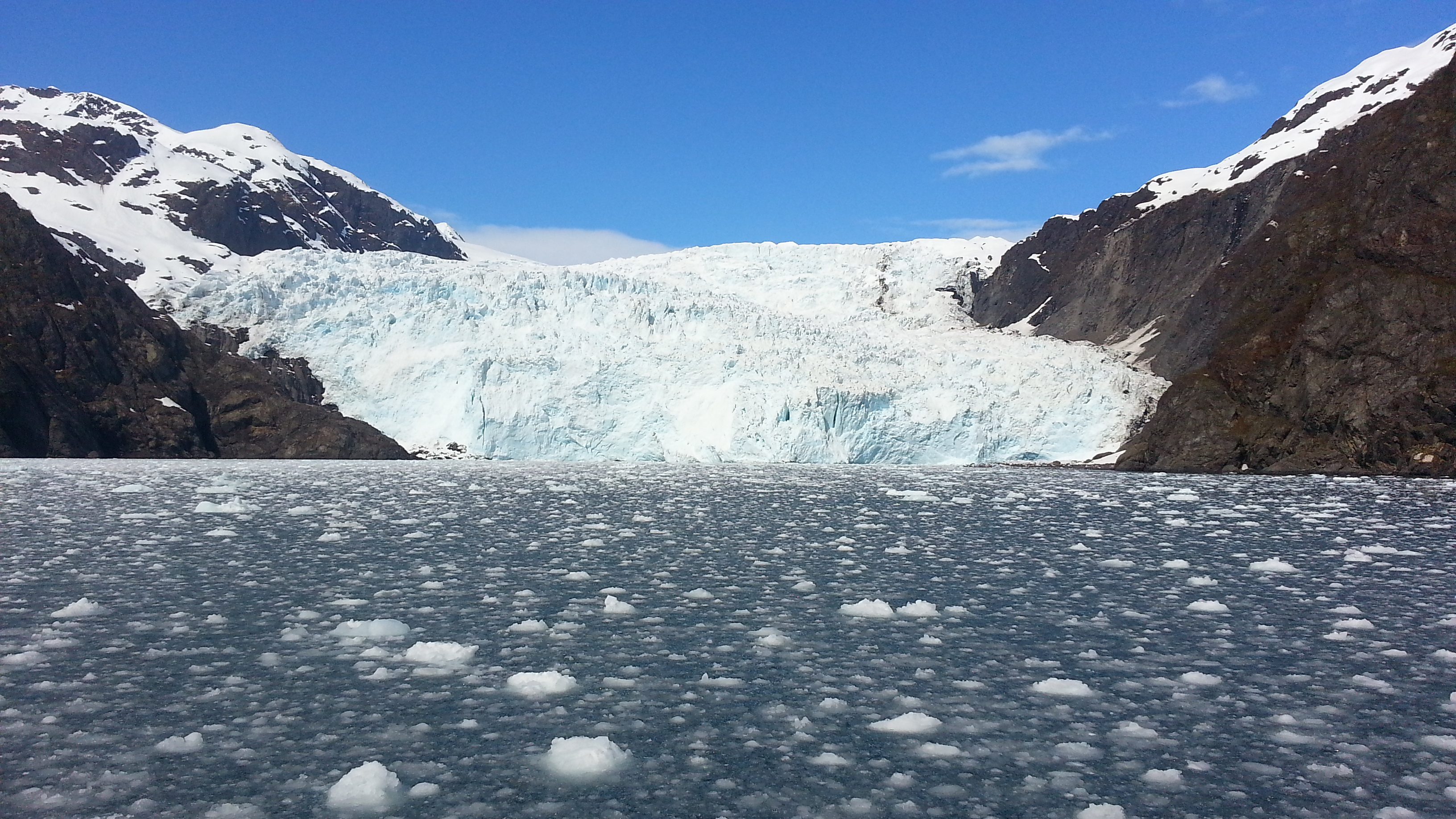 Holgate Glacier calving. Holgate Glacier is located near Seward, Alaska.